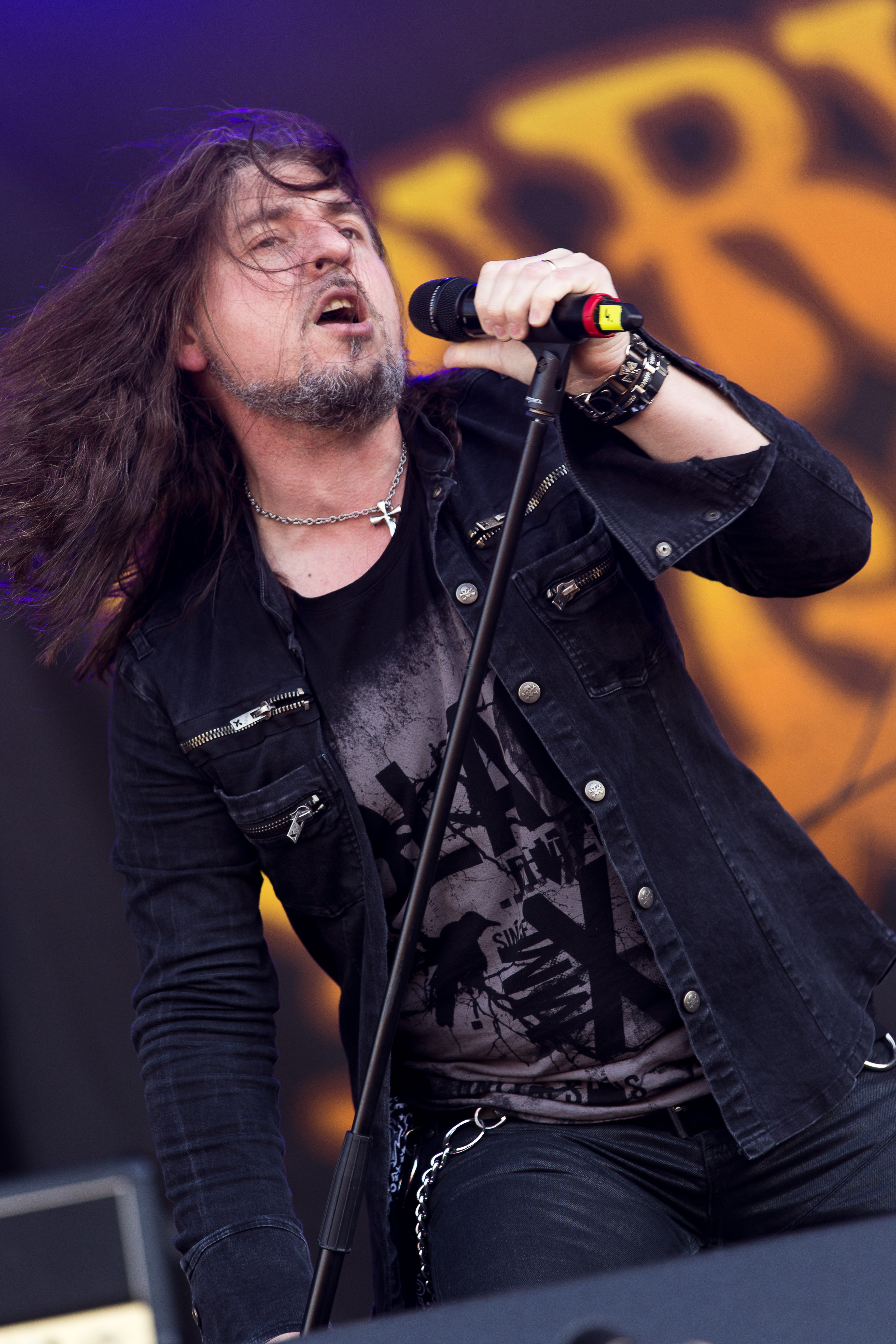 The Swedish stoner metal band Spiritual Beggars at the Rockharz Open Air 2016 in Ballenstedt/Germany.